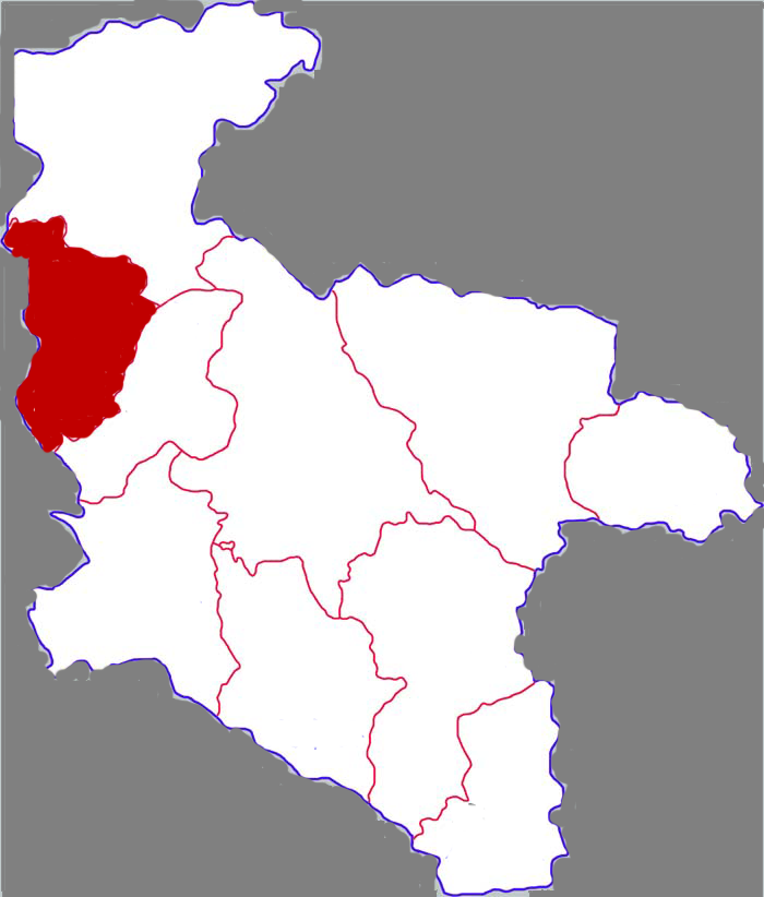 Location of Shiquan county in Ankang city, China